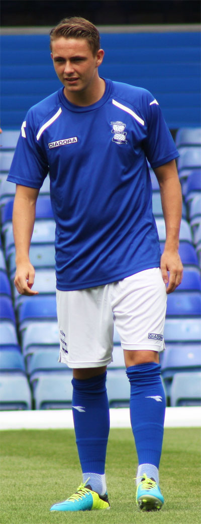 Scott Allan vs Hull City in 2013 pre-season.